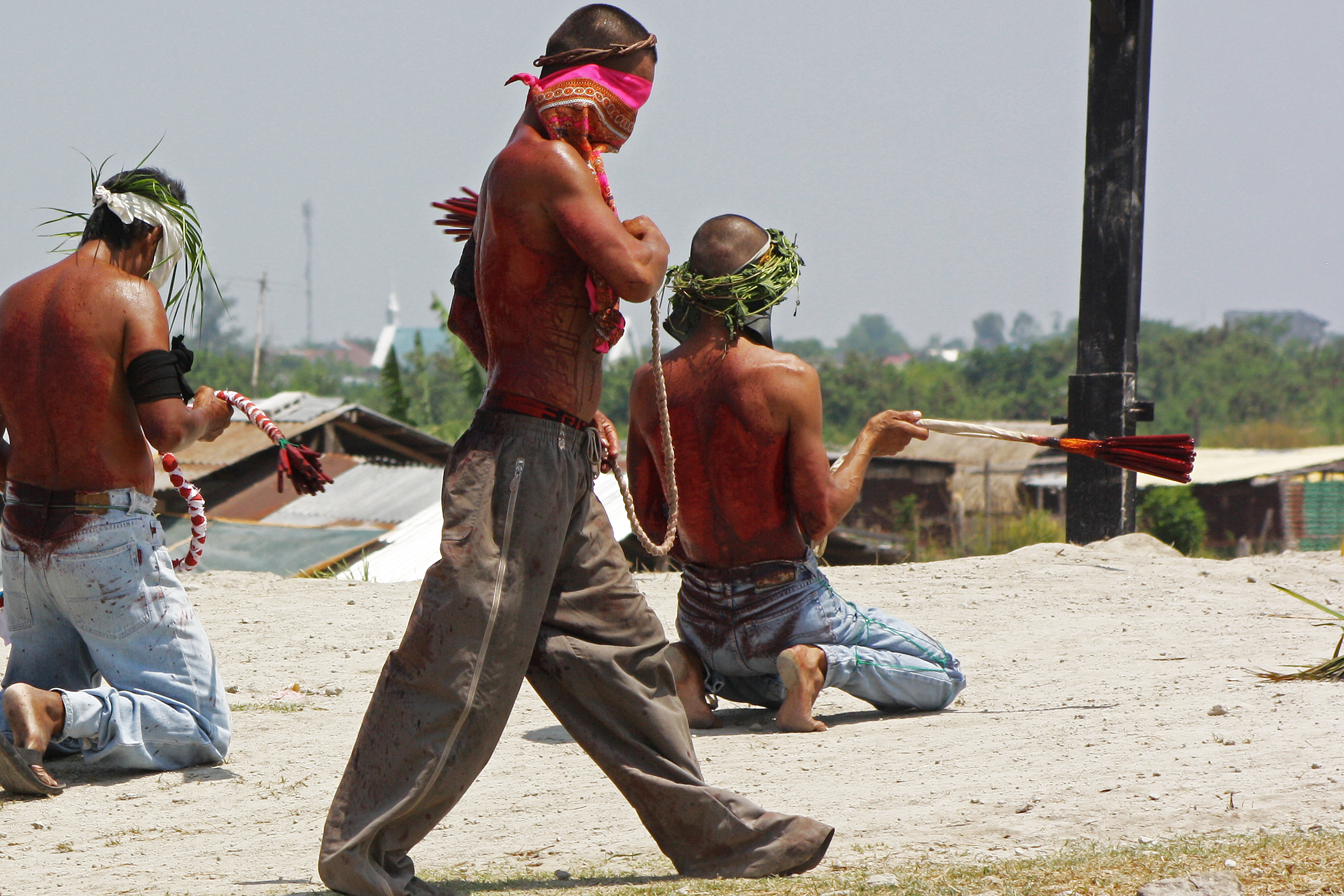 Good Friday observance in Barangay (barrio) San Pedro Cutud, in San Fernando, Pampanga, Philippines. During this annual tradition of faith of Kapampangan Catholic Devotees people remember the suffering and crucifixion of Jesus Christ. Although the modern Catholic church now discourages this act of hurting themselves, many penitents called "magdarame" carry wooden crosses, crawl on rough pavement, and slash their backs before whipping themselves to draw blood (pictured). This is done to ask for forgiveness of sins, to fulfill vows (panata), or to express gratitude for favors granted.